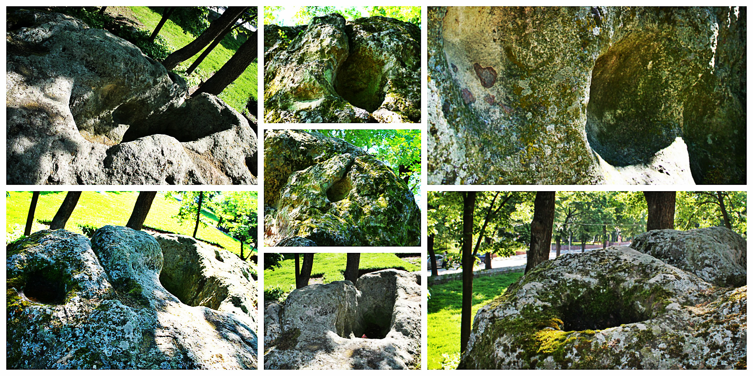 Bogorodichnata_stupka_Mineralni_bani_Haskovo_BG